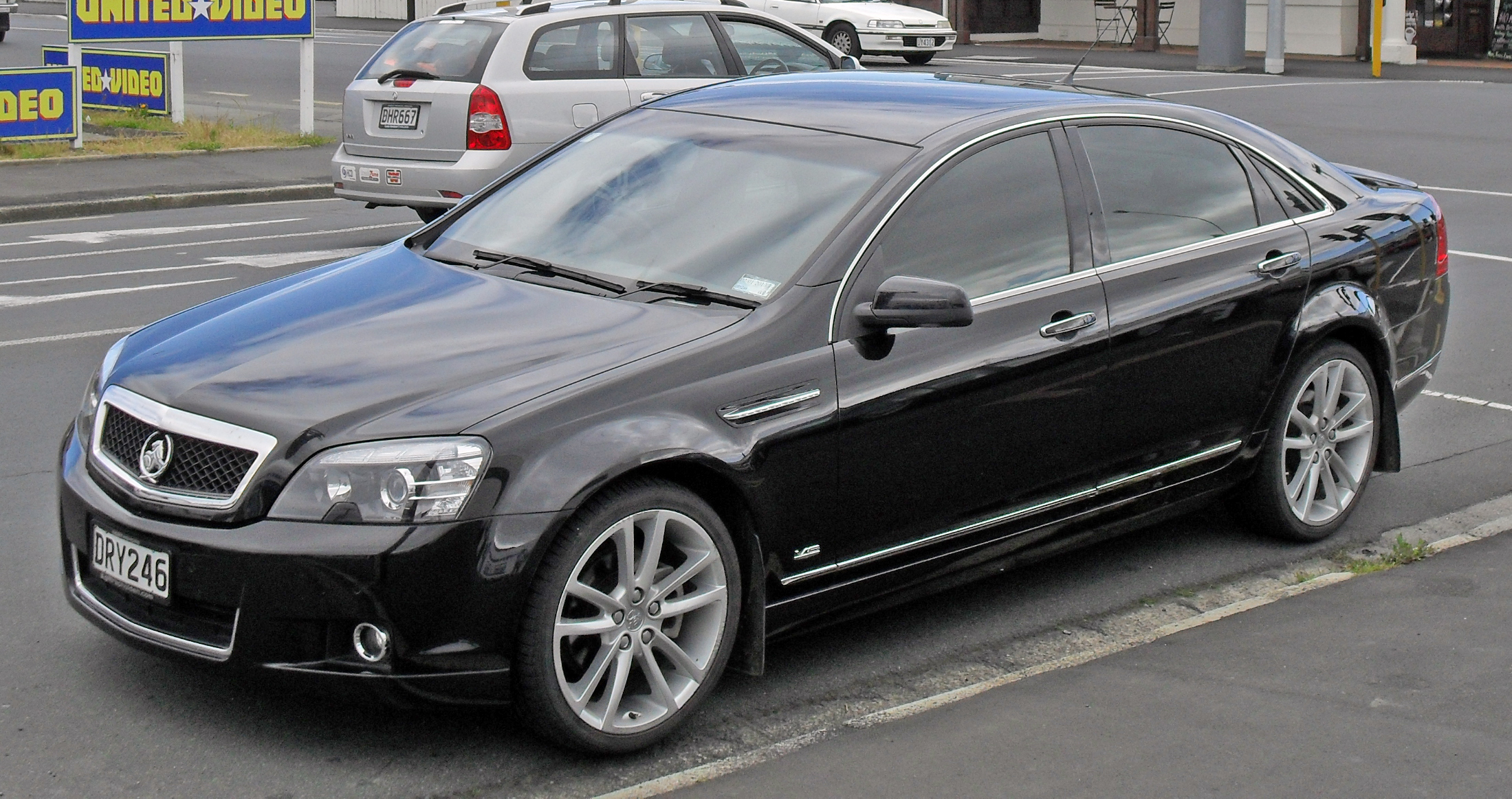 2006–2008 Holden WM Caprice sedan, photographed in Dunedin, New Zealand.